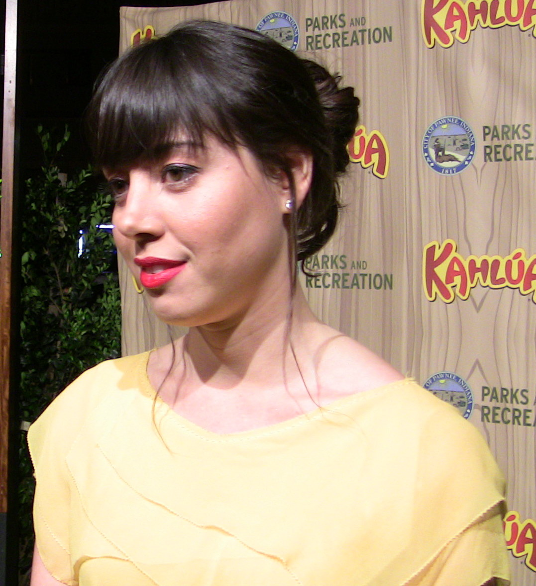 Actress Aubrey Plaza at the premiere party of TV series Parks and Recreation